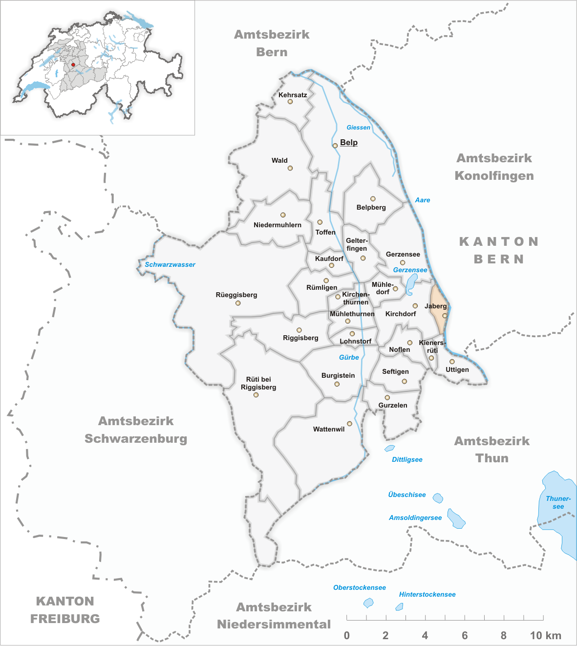 Municipality Jaberg